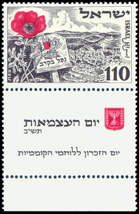 Forth Independence Day stamp - 110 mil. Inscription: "Safed" ("fell in action"). Inscription on tab: "Independence Day 5712", "Memorial Day for the Fighters for Independence"